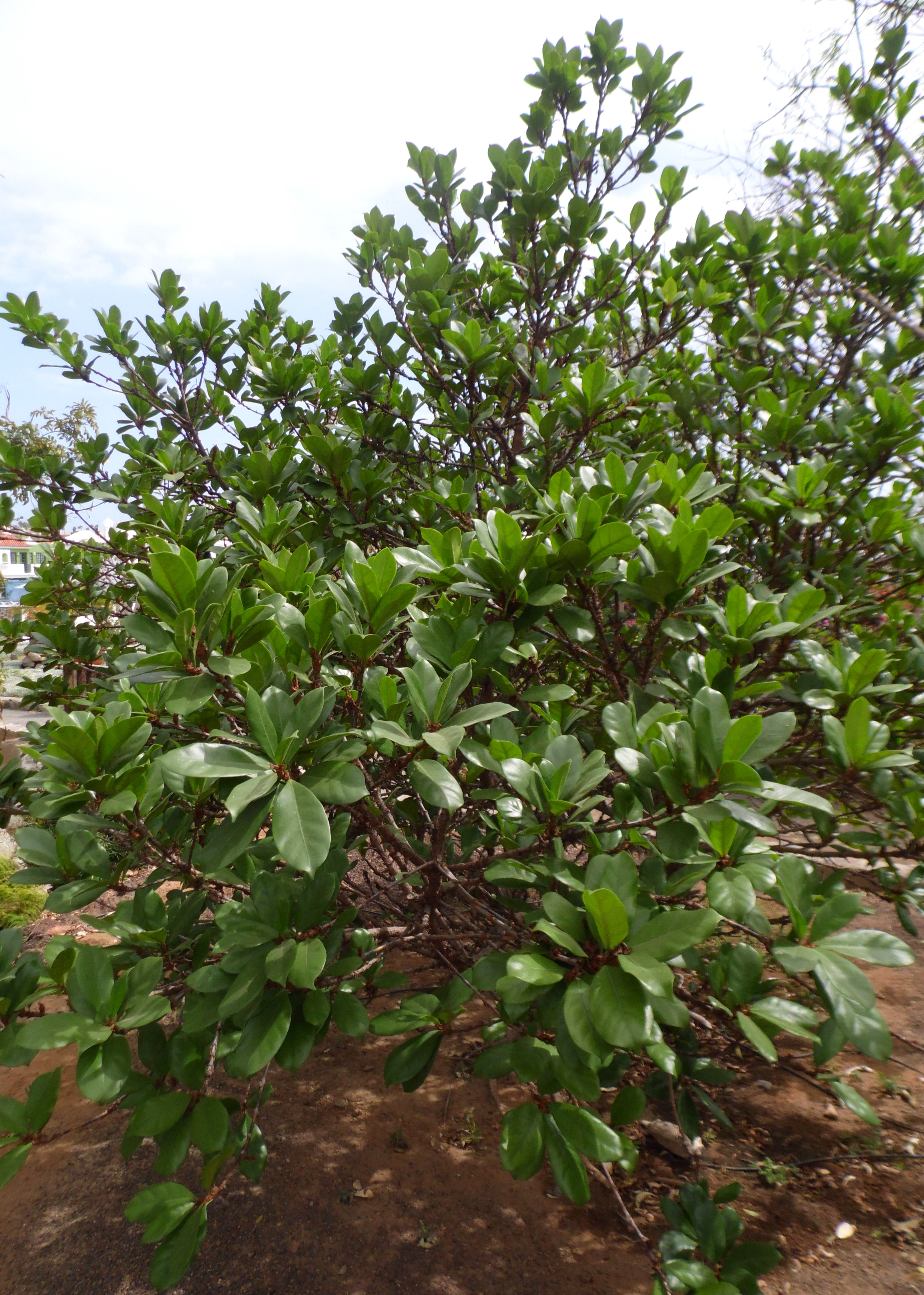 Ficus cyathistipula in Parque Botánico de Maspalomas (Gran Canaria)